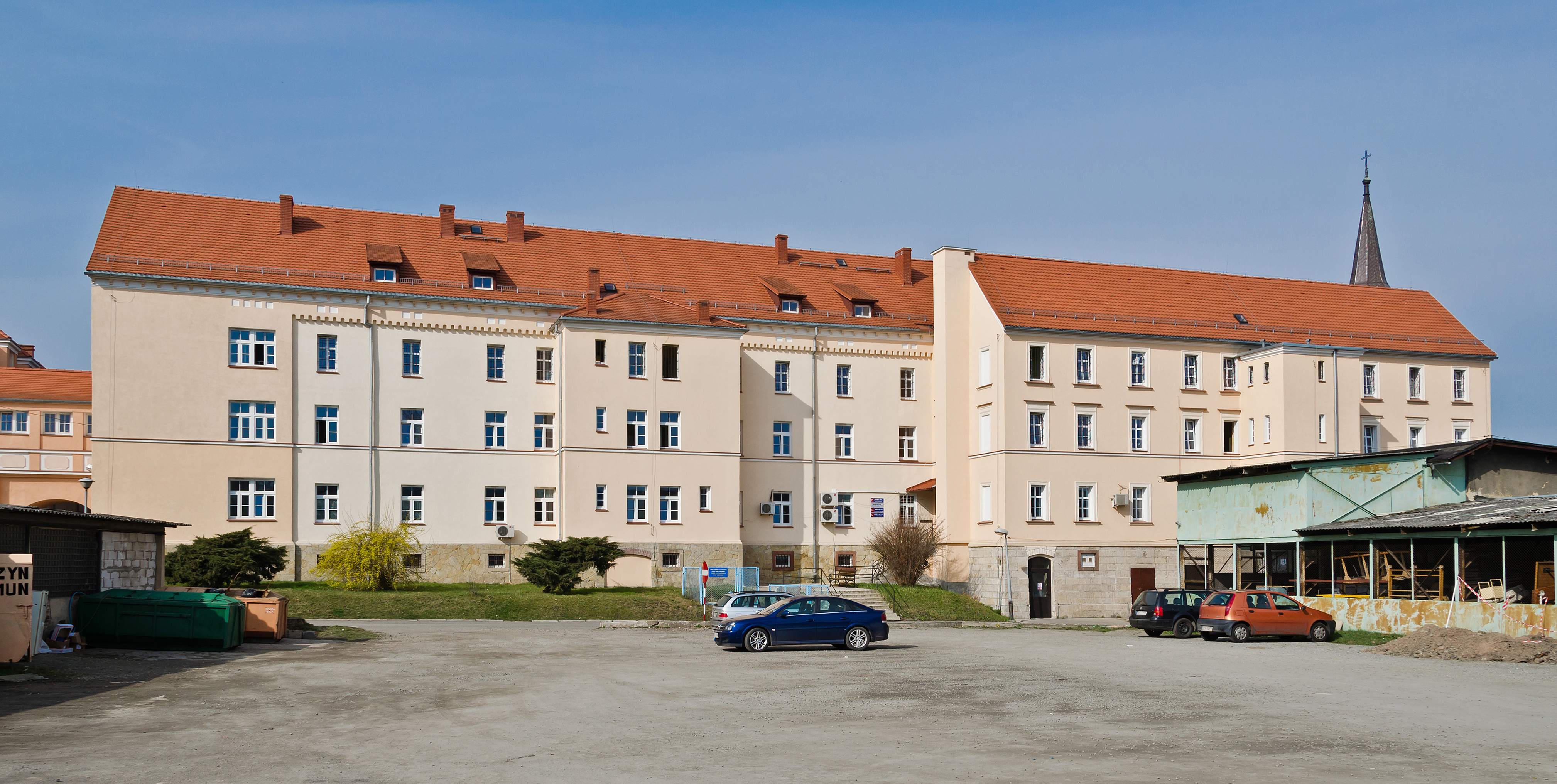 Building of Department of Pulmonology Diseases at Kłodzko Hospital